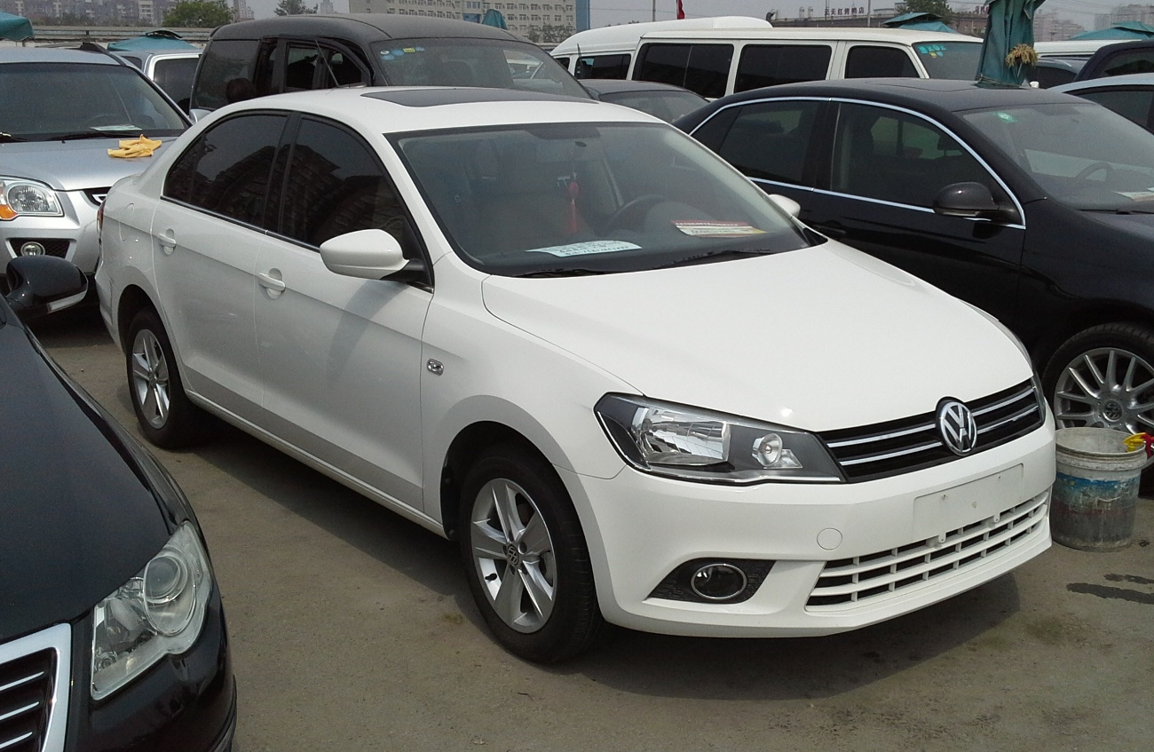 Volkswagen Jetta CN II photographed at the Beijing Used Car Trade Market, Beijing, China.